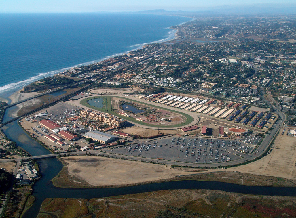 Del Mar, California. The horse race track and fairgrounds. Pacific Ocean.